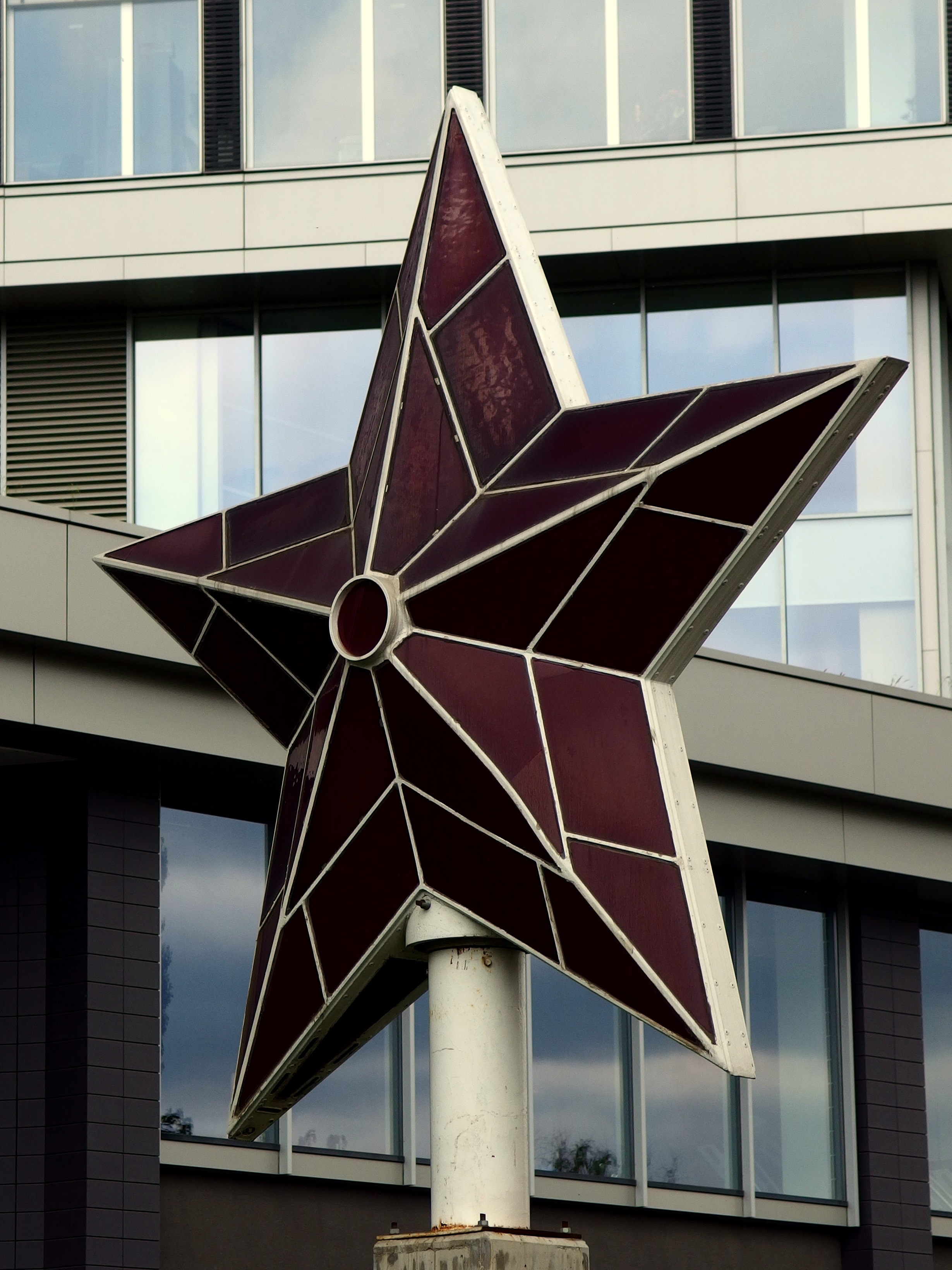 2014-06-15 in the Museum of socialist art (Sofia).